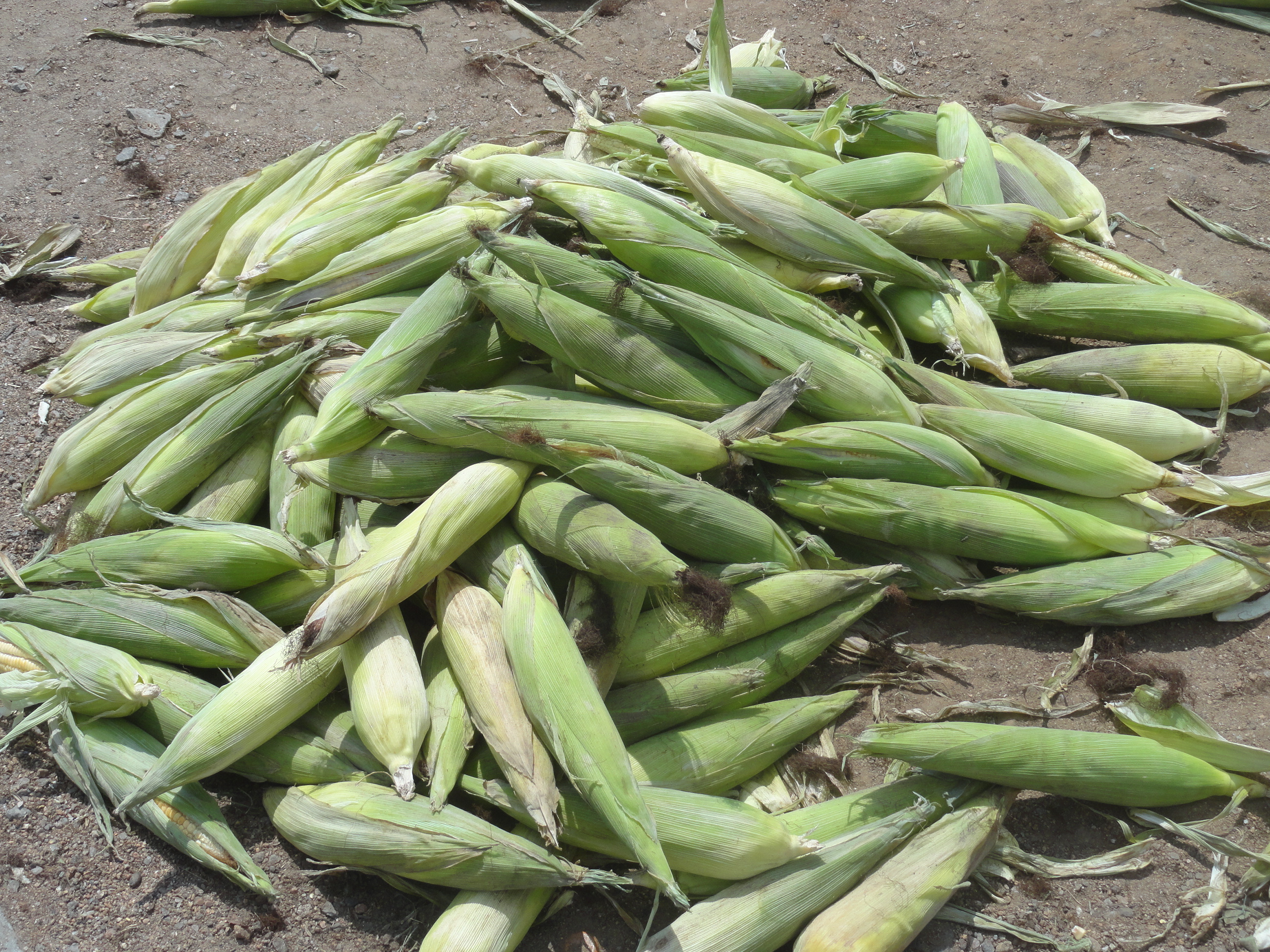 At lb nagar (Hyderabad) vegetable market